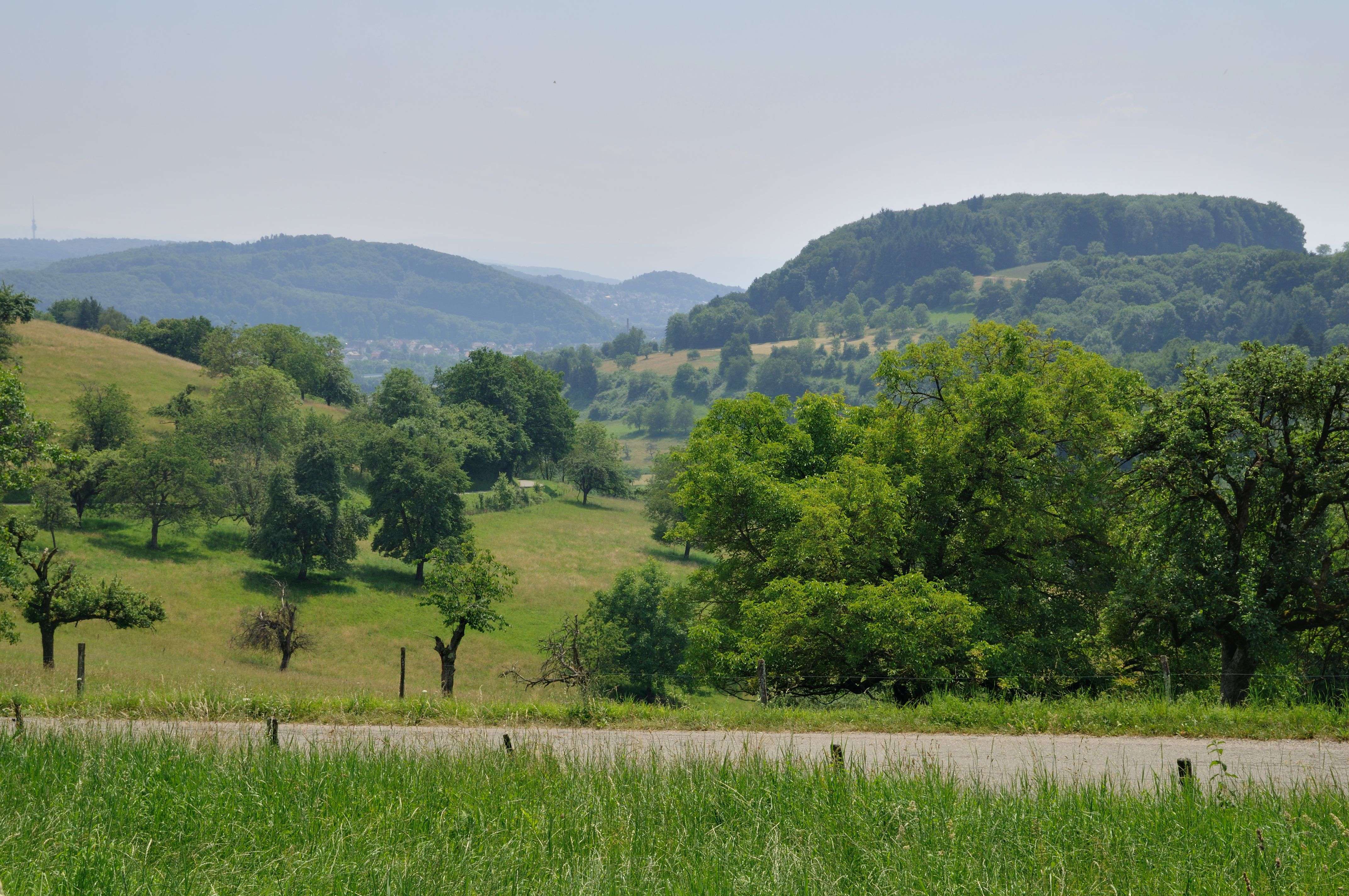 Hauingen: valley of Soormatt